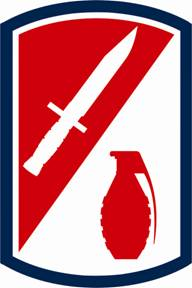 192nd Infantry Brigade shoulder patch from